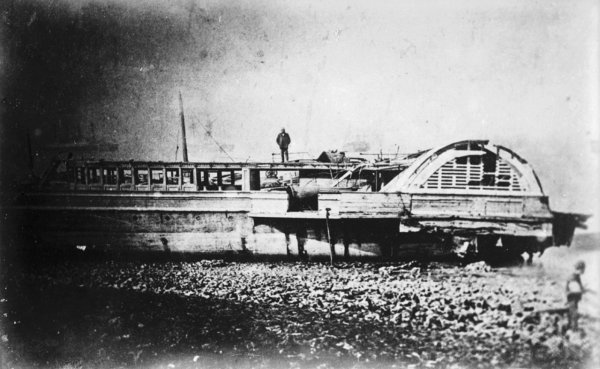 Princess Alice (1865) beached after being cut in two in a collision (1878) Reproduction ID: P20979 Maker: Unknown Date: 1878-1909